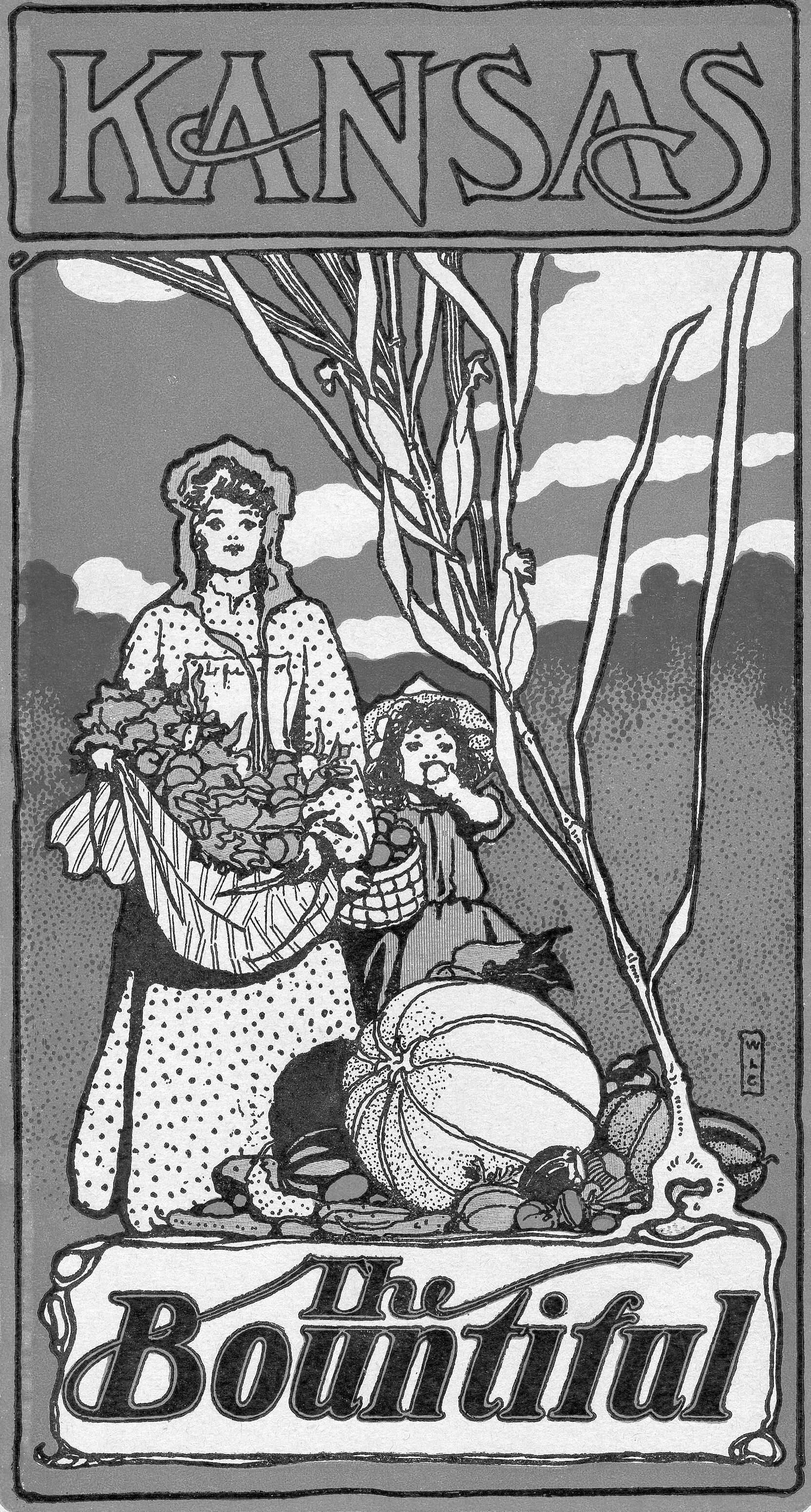 "Kansas the Bountiful" cover of a promotional booklet published in 1907 by the Rock Island railroad. URL = p 203 PD published in US before 1923